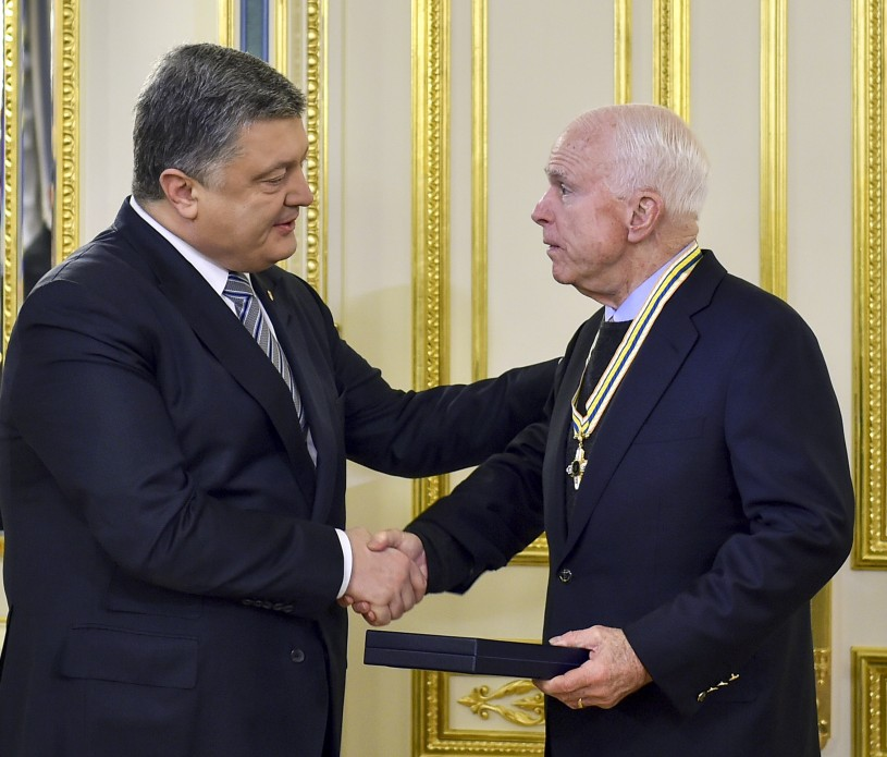 President presented state awards to Senators John McCain and Lindsey Graham